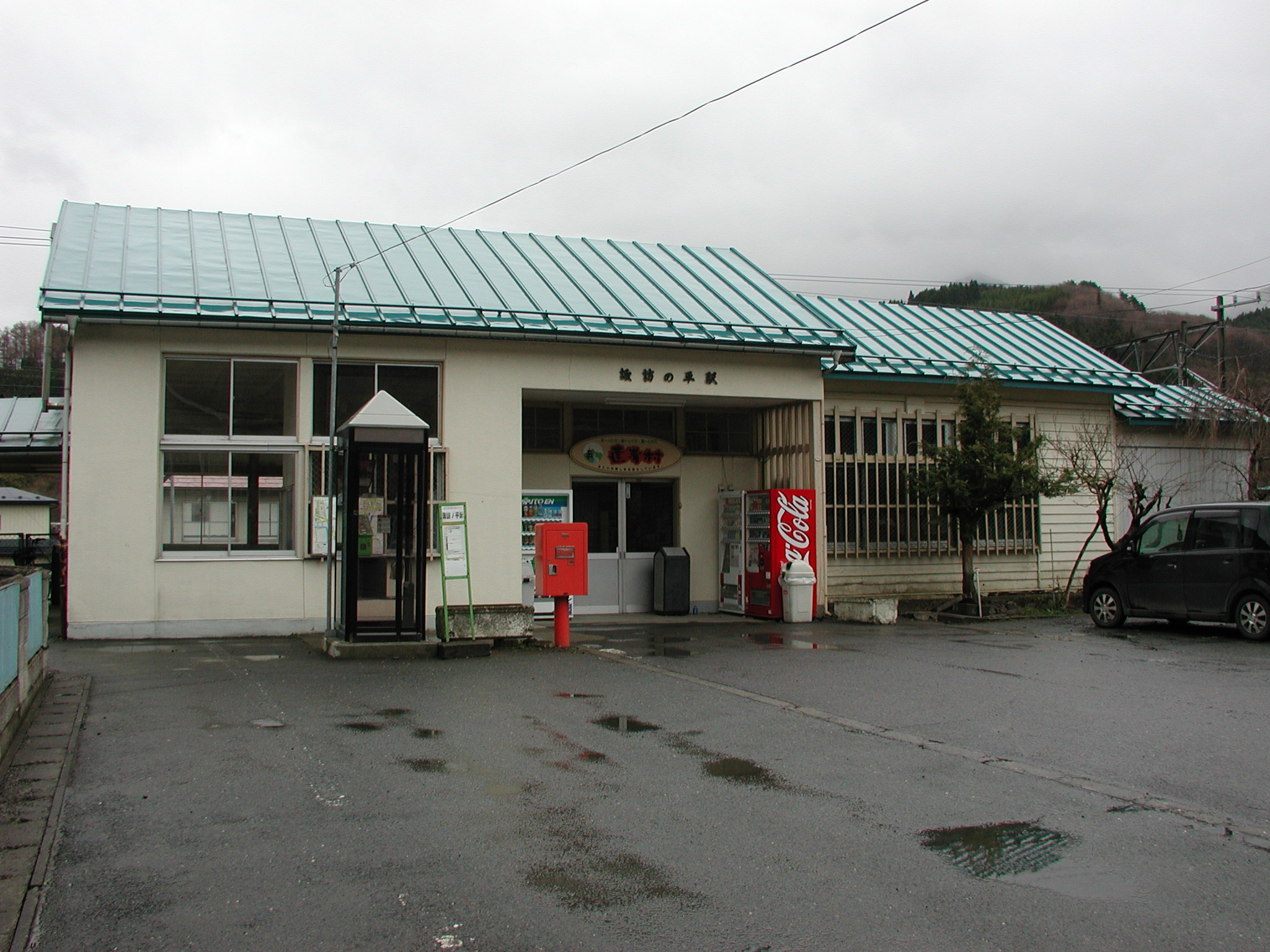 Suwanotaira Station